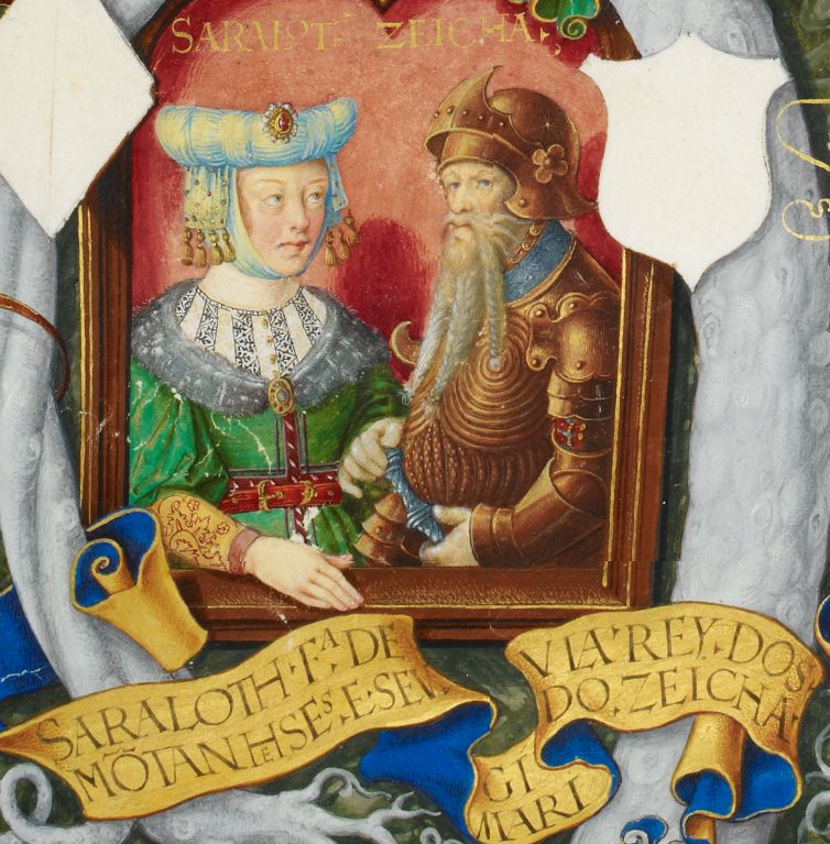 Prince Géza of Hungary and his wife Sarolt of Transylvania